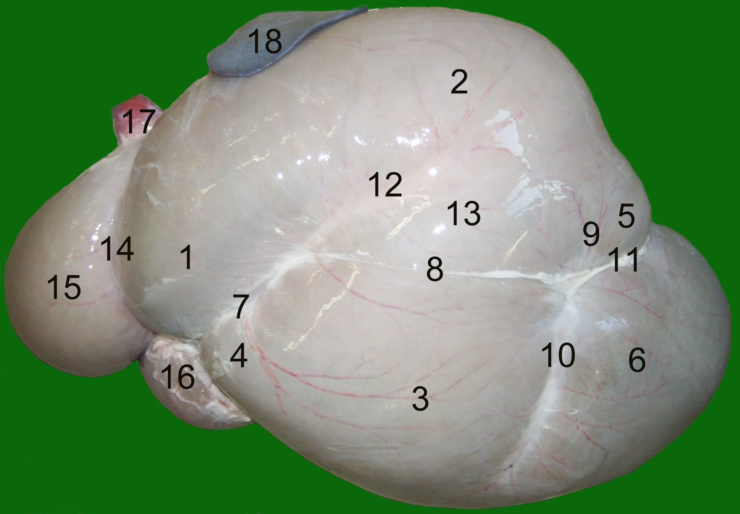 Rumen of a sheep 1-13 Rumen, 14 Ruminoreticular groove, 15 Reticulum, 16 Abomasum, 17 Esophagus, 18 Spleen.